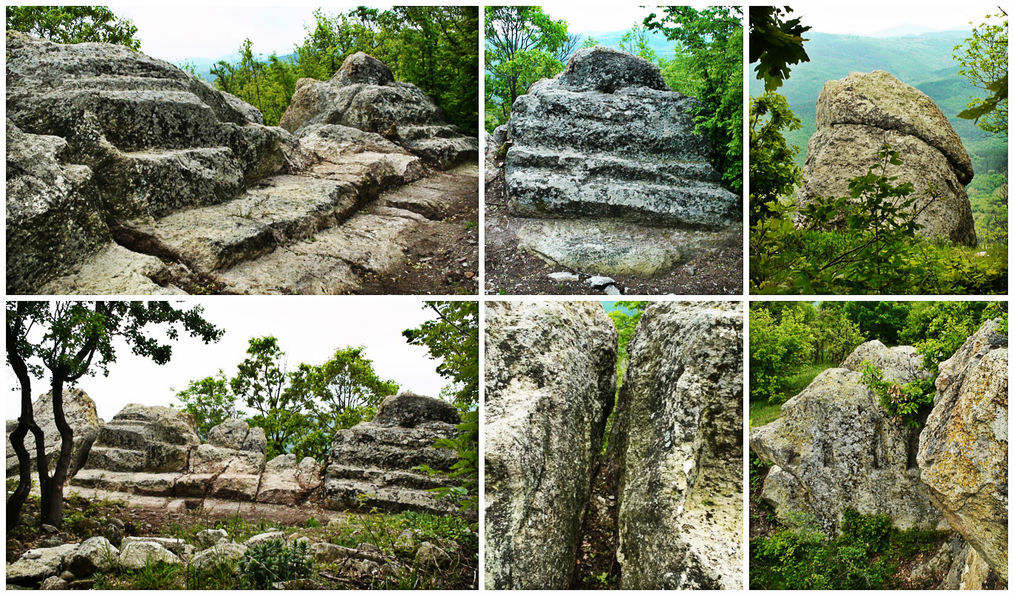 Sanctuary complex Angel Voivoda Bulgaria 02